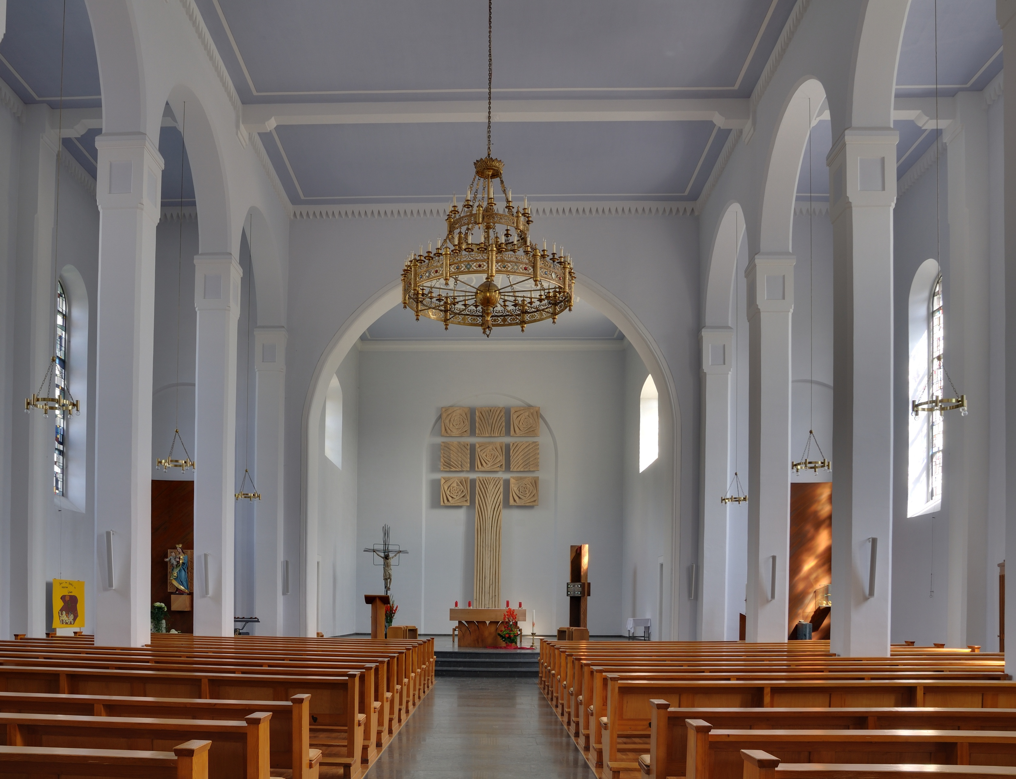 Schwörstadt: Catholic Church